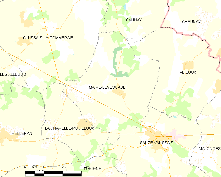 Map of French municipality Mairé-Levescault